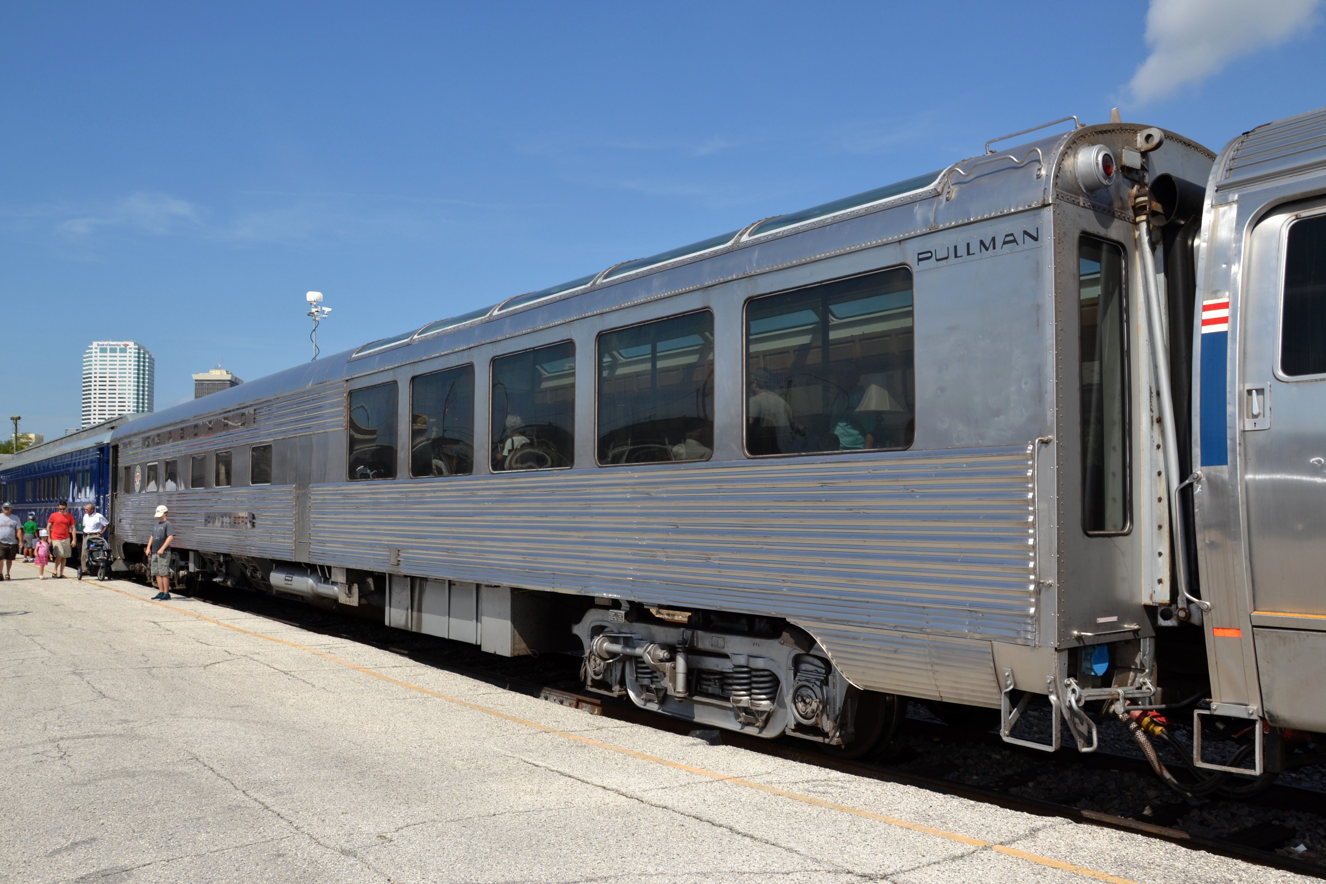 National Train Day is held each year to introduce the general public to trains and train history. This year it also was a way to celebrate the 75th anniversary of streamline passenger service to Florida so what better place to hold it than Tampa's historic Union Station. Amtrak still uses Tampa Union Station to host the Silver Star, which carries passengers between New York City and Miami.